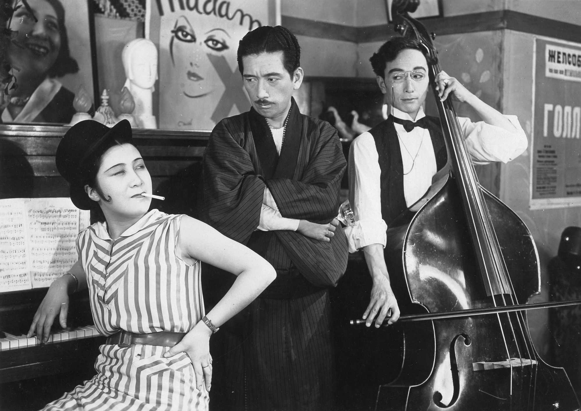 Satoko Date, Atsushi Watanabe and Tokuji Kobayashi in The Neighbor's Wife and Mine (1931)